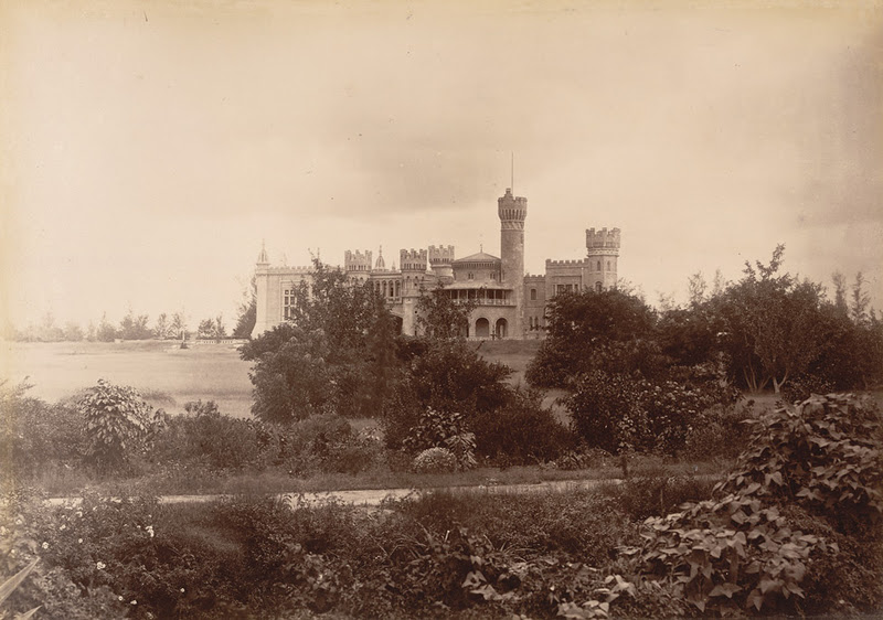 Maharaja’s Palace at Bangalore. Lee-Warner Collection: 'Souvenirs of Kolhapur. Installation of H.H. the Maharajah, 1894'